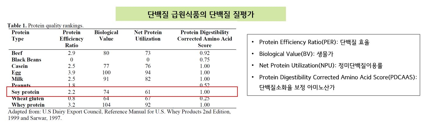 Protein quality